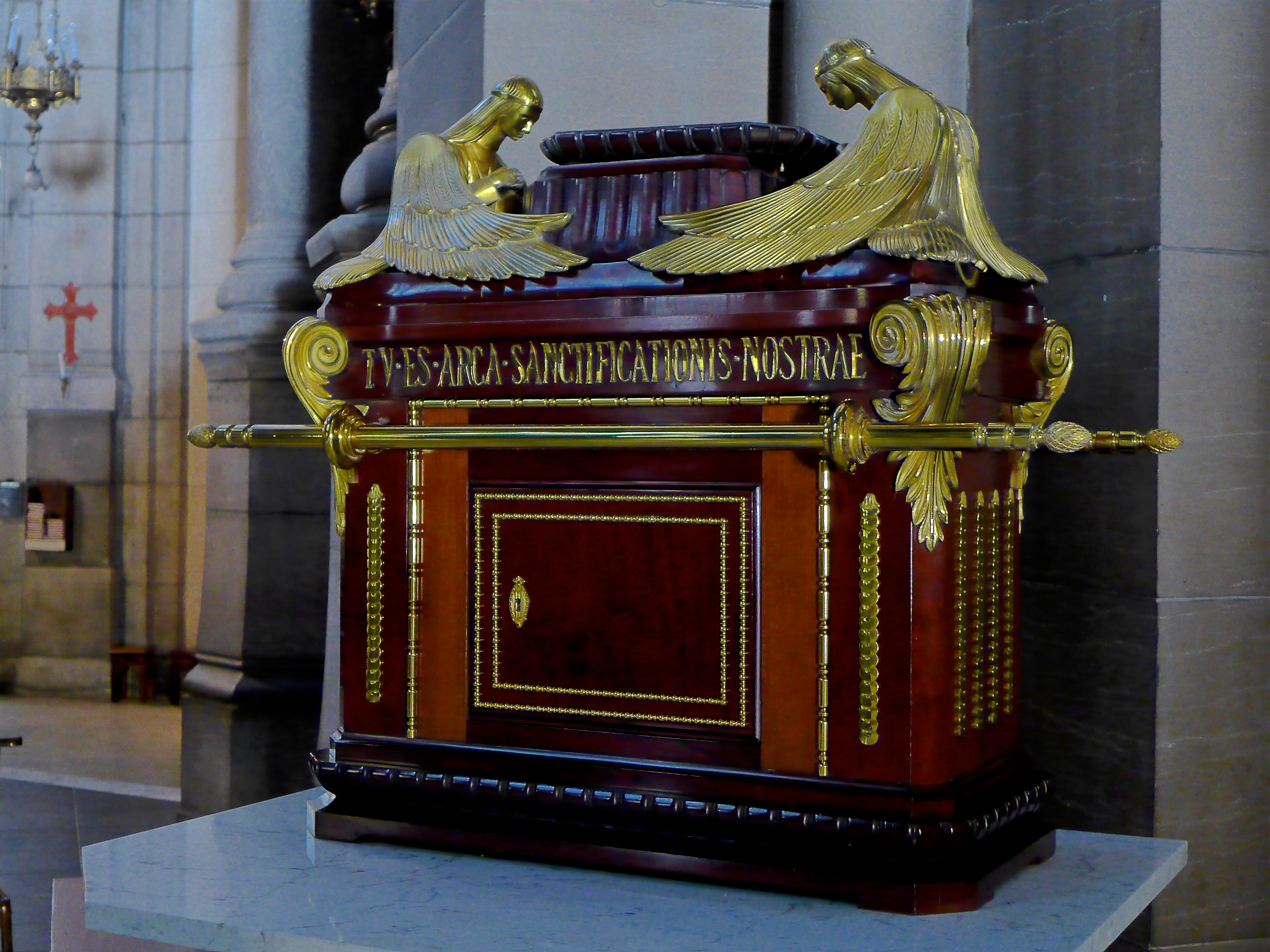 View of the ark of the covenant located in the Cathedral Saint Charles Borromée of the french town of Saint-Etienne